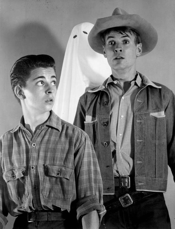 Publicity photo of American actors, Tommy Rettig (left) and Will Hutchins (right), promoting the October 28, 1958 episode of the ABC television series, Sugarfoot, entitled "The Ghost"